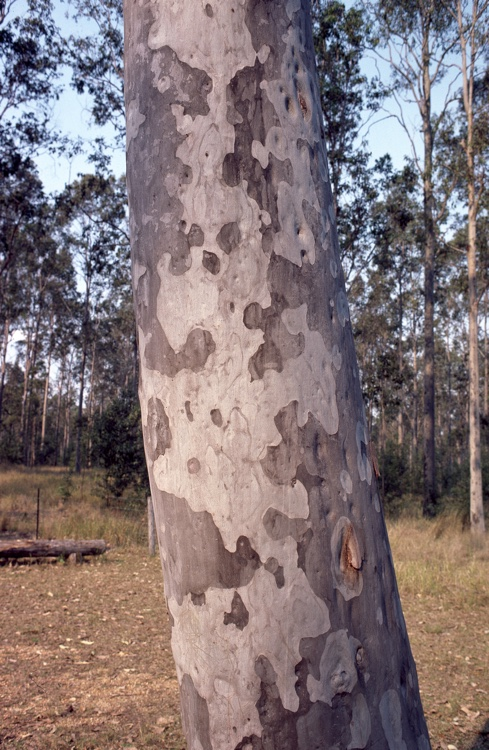 Bark of Corymbia henryi between Casiion and Grafton, New South Wales